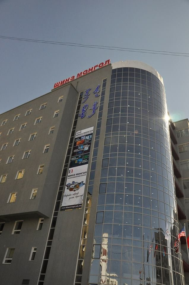 Шинэ Монгол сургуулийн сурах орчины талаарх мэдээлэлд хавсралт болгох зорилгоор нийтлэв.